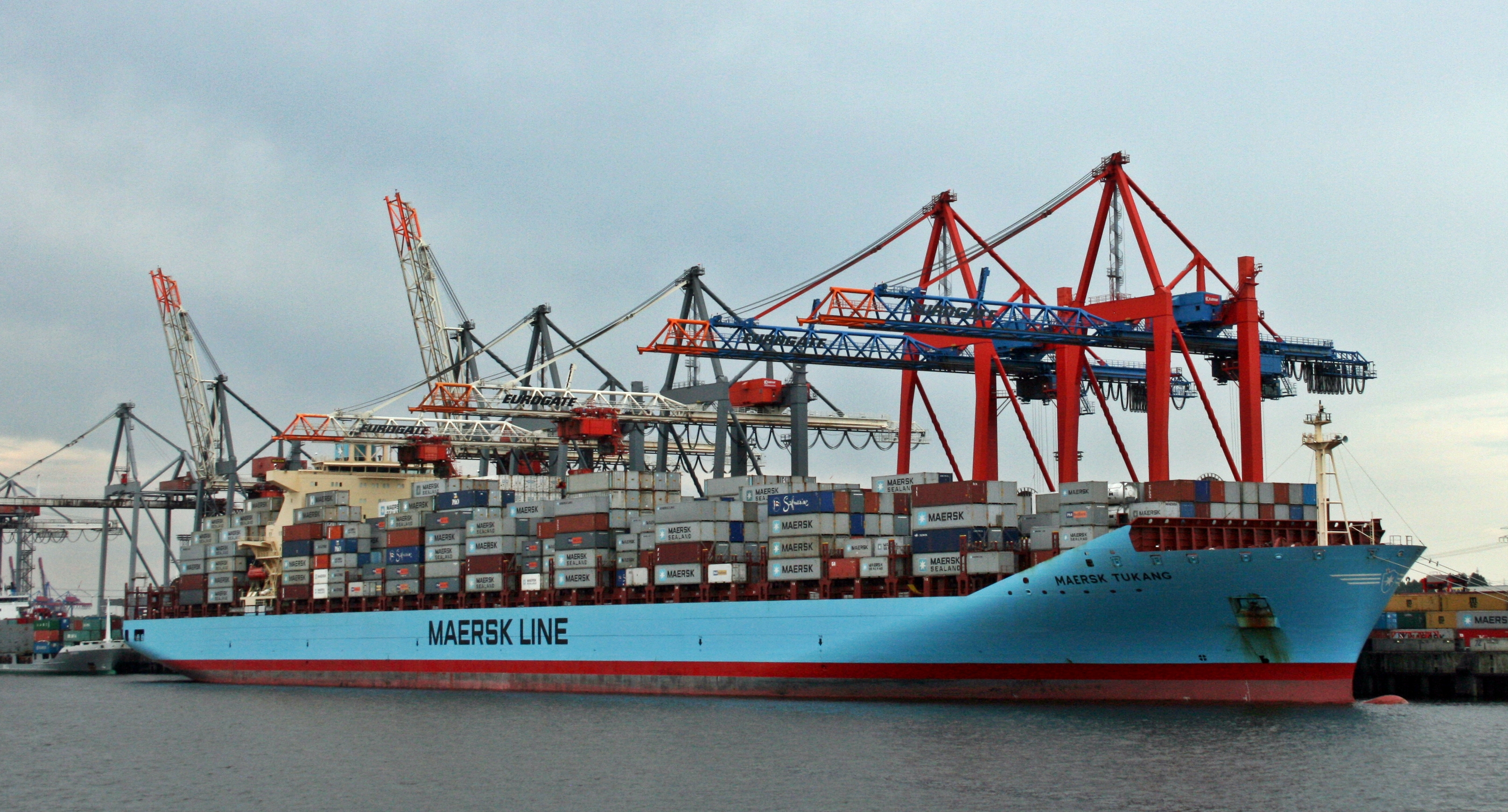 Danish container ship "Maersk Tukang" at Hamburg harbour (Eurogate Container Terminal), Germany